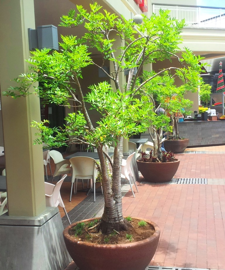 Bois Mapou in cultivation - Mauritius - Cyphostemma mappia